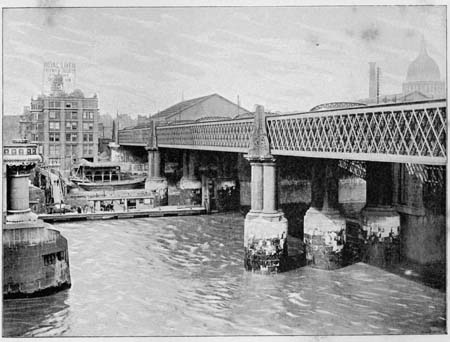 Blackfriars Railway Bridge, 1897